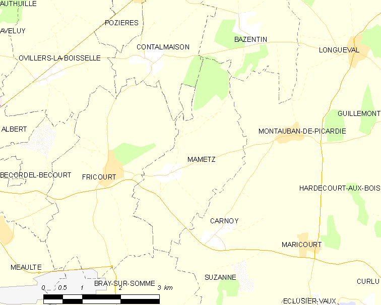 Map of French municipality Mametz